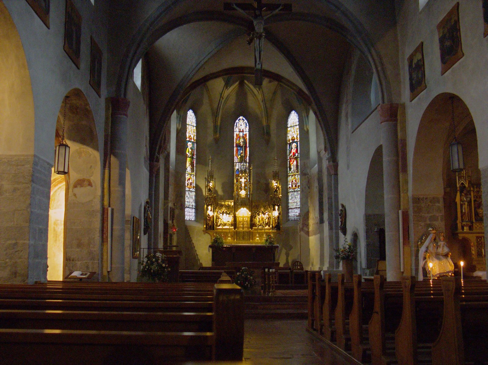 chancel of city parish church of Zell am See, Austria